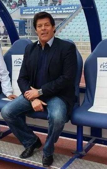 Luc Eymael as the head coach of JS Kairouan in a match against Club Africain. 27 September 2015 Stade Olympique de Radès